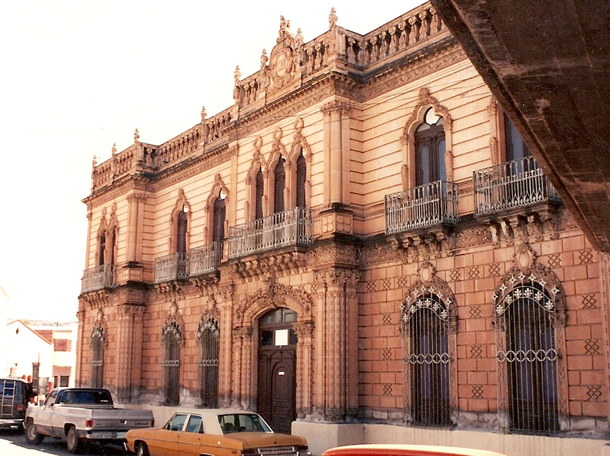 The Palacio Alvarado in Parral, Chihuahua. Taken by me in 1992.